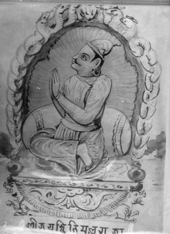 Jayasthiti Malla, ruler of whole Kathmandu valley from c.1382 - 1395